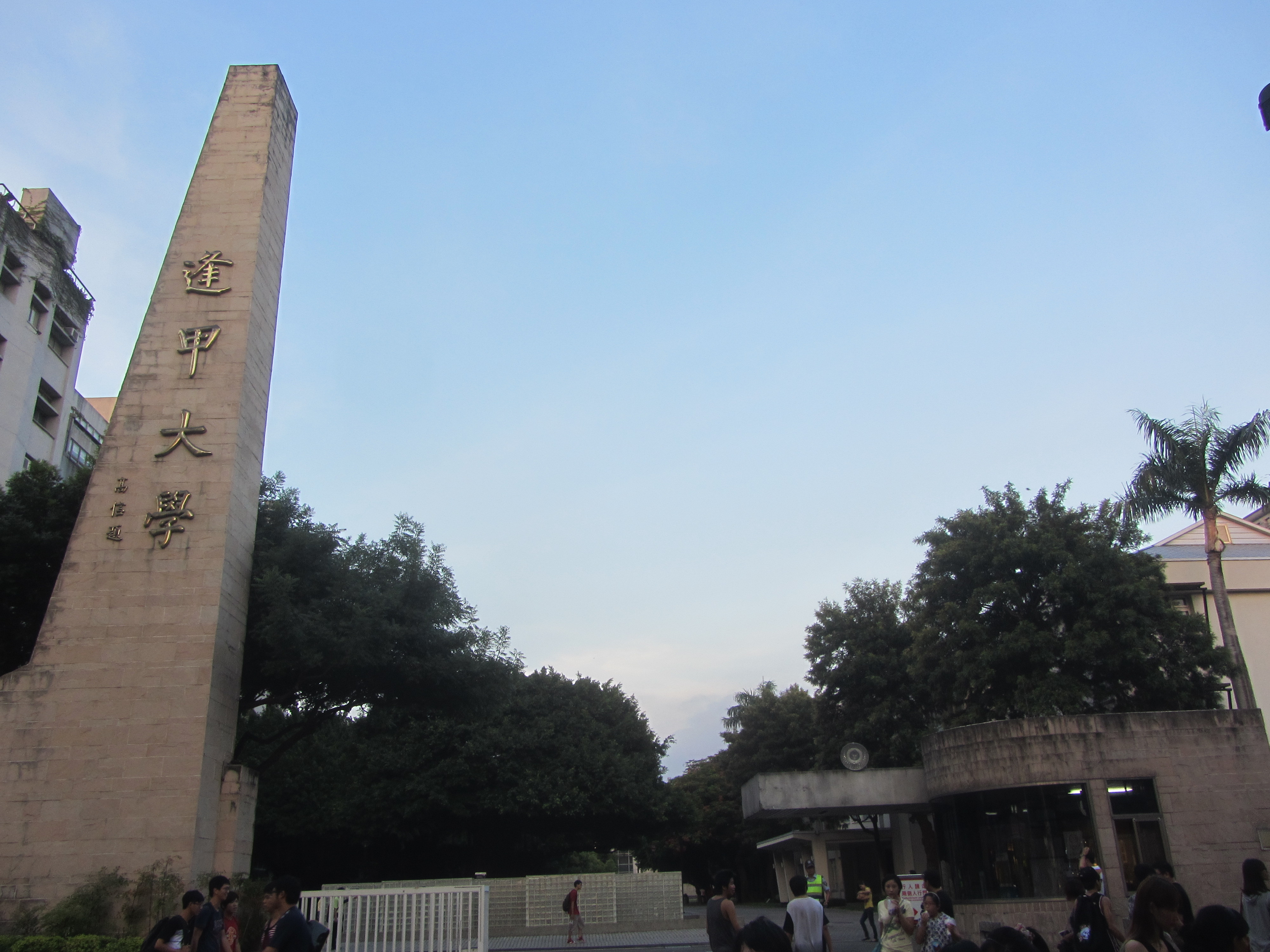 West Gate of Main Campus, Feng Chia University.